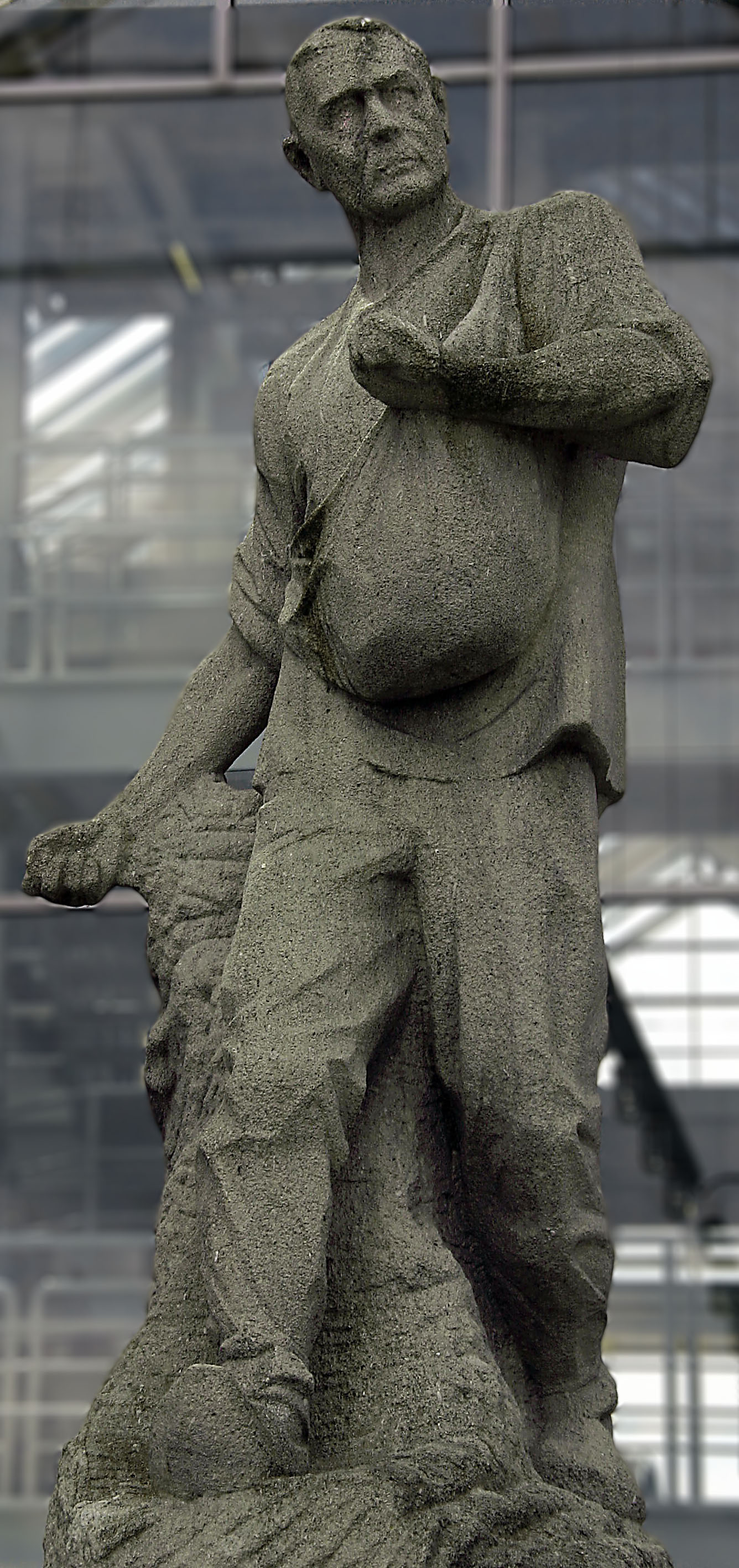 De zaaier (The Sower), statue by August Falise, in front of Wageningen University and Research Centres main office.